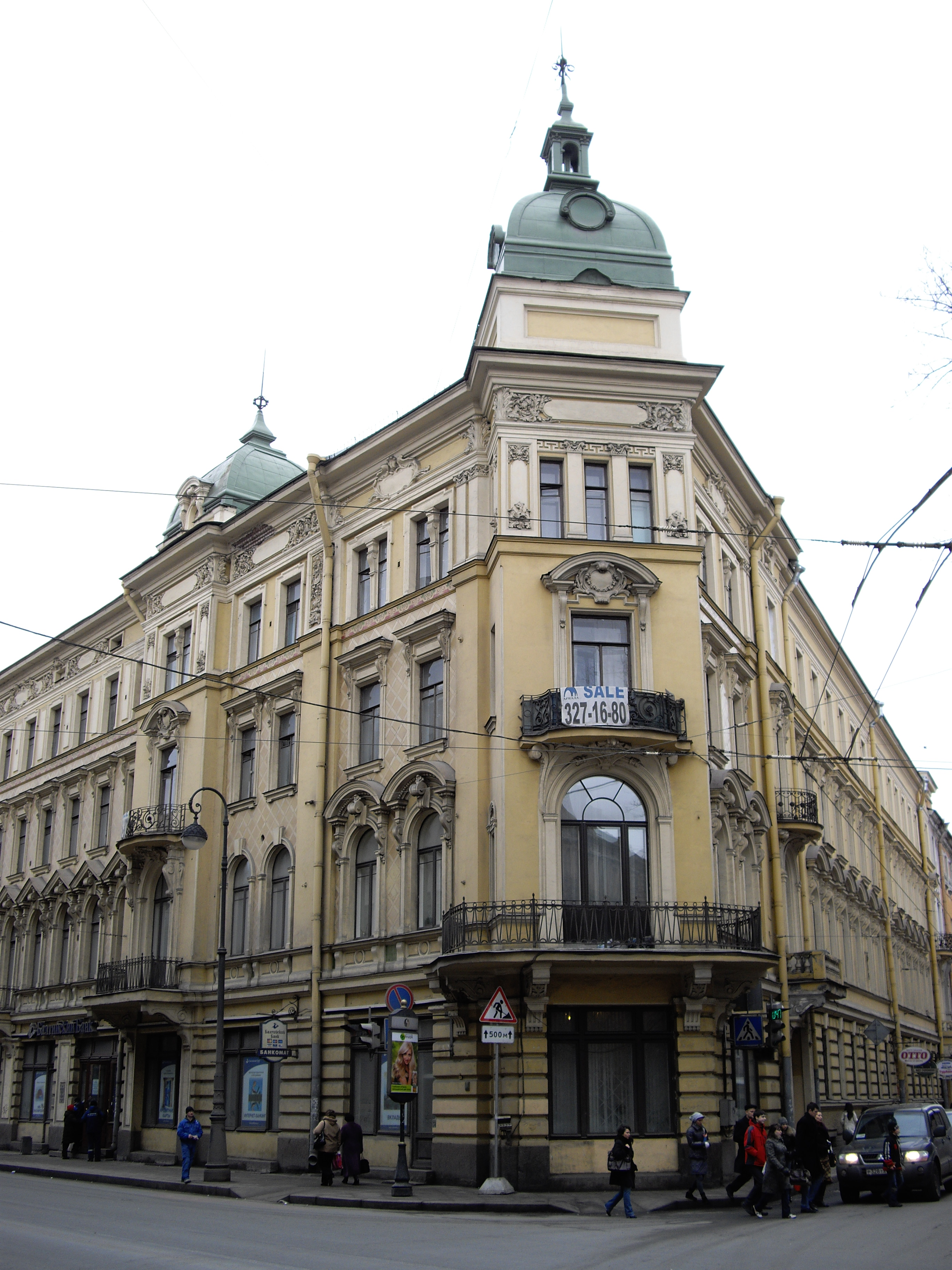 47, Bolshaya Pushkarskaya street, and 32, Kamennoostrovsky Prospekt (Saint Petersburg, Russia): Shvedersky house (architect Vladimir Zeidler, 1898-1900).